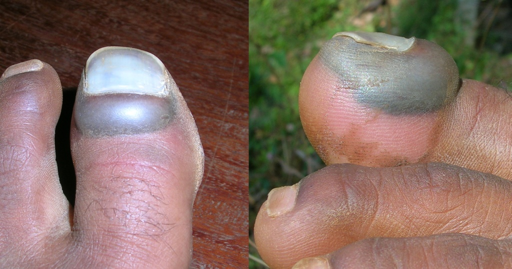 Injured toe nail - 3 days after the accident